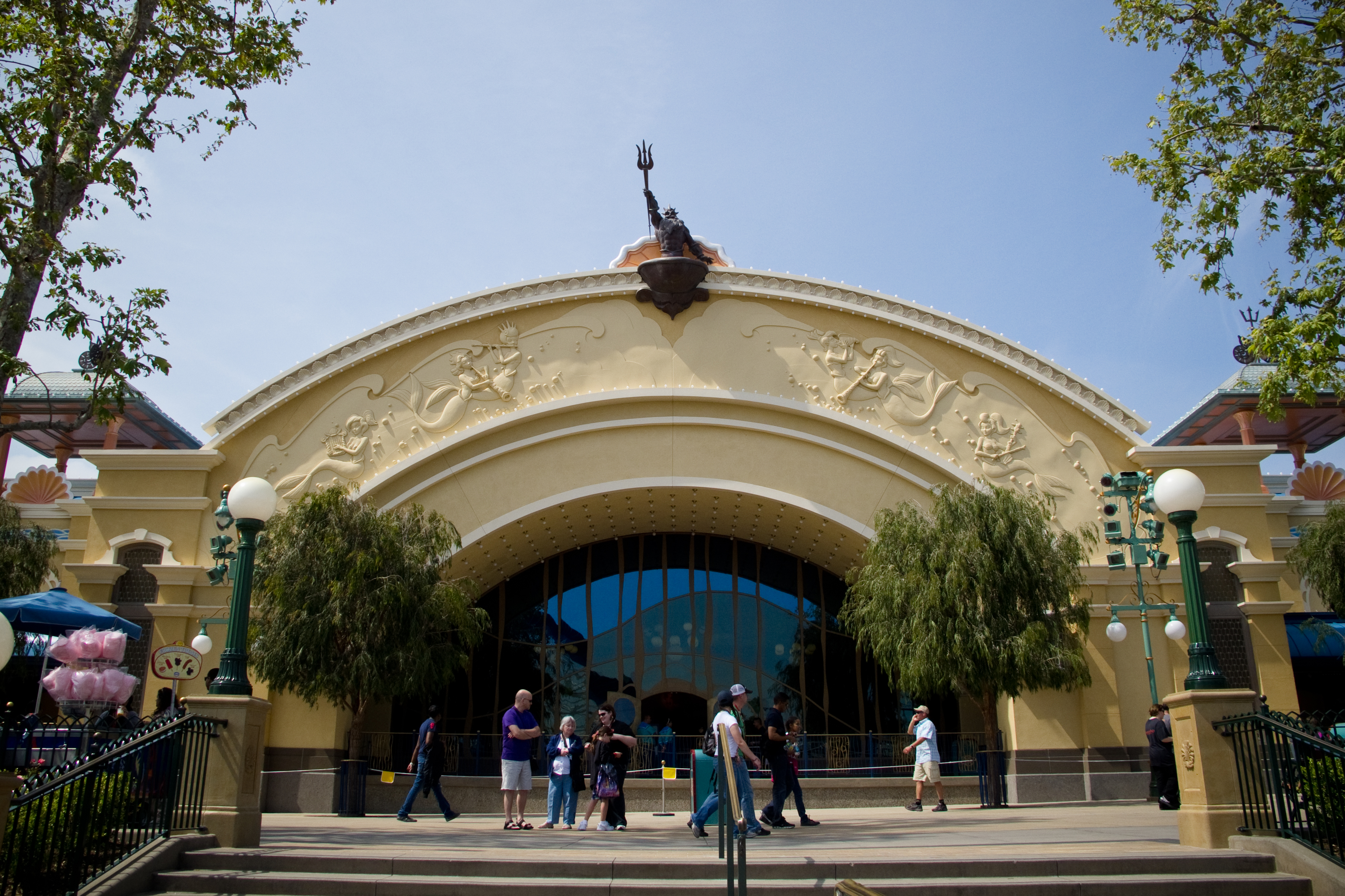 Some of the exterior of the new Little Mermaid ride at Disney California Adventure.